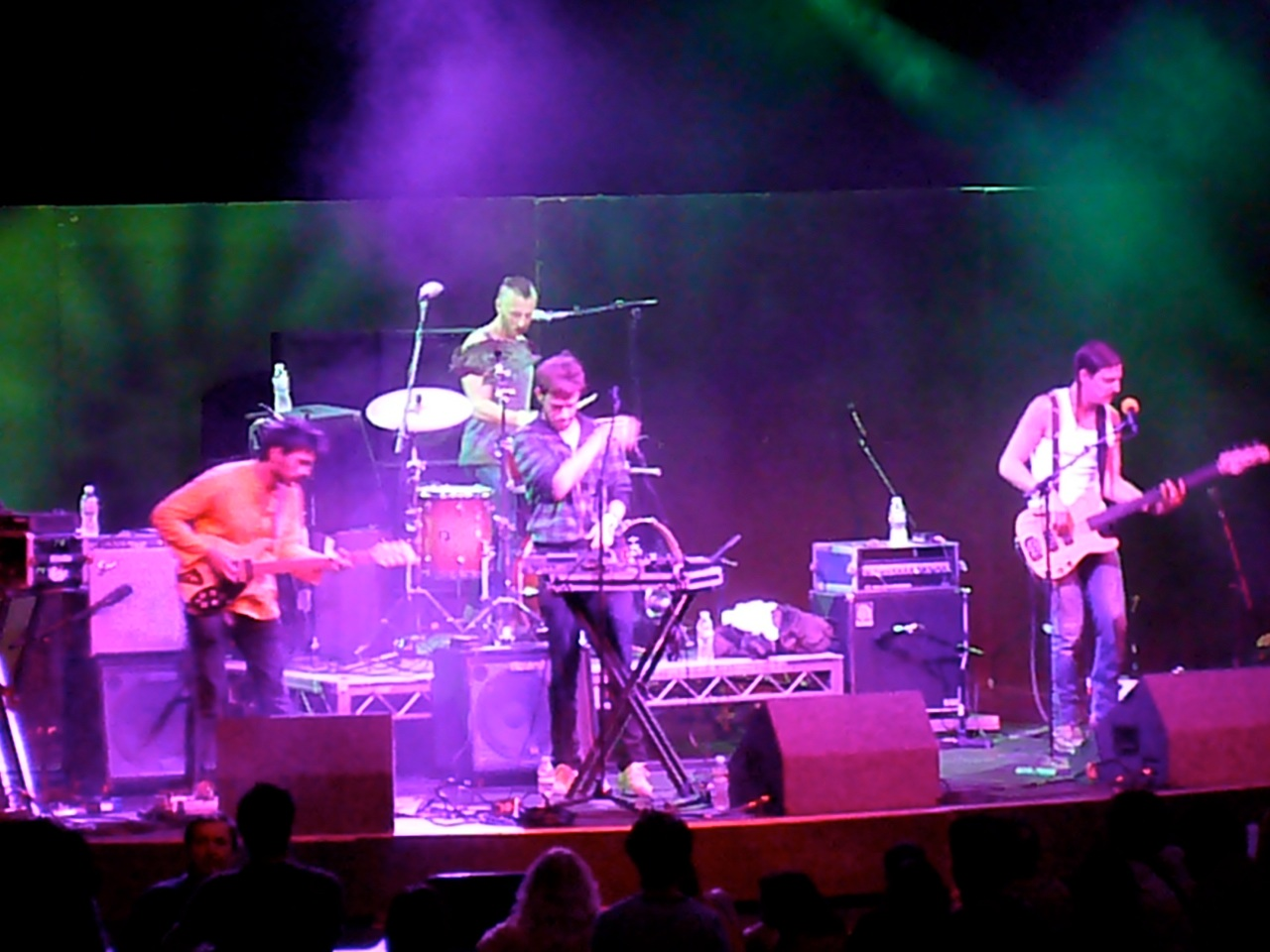 Yeasayer at Download 08